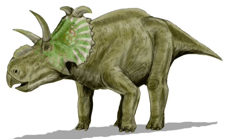 Albertaceratops nesmoi, a ceratopsian from the Late Cretaceous of North America, pencil drawing